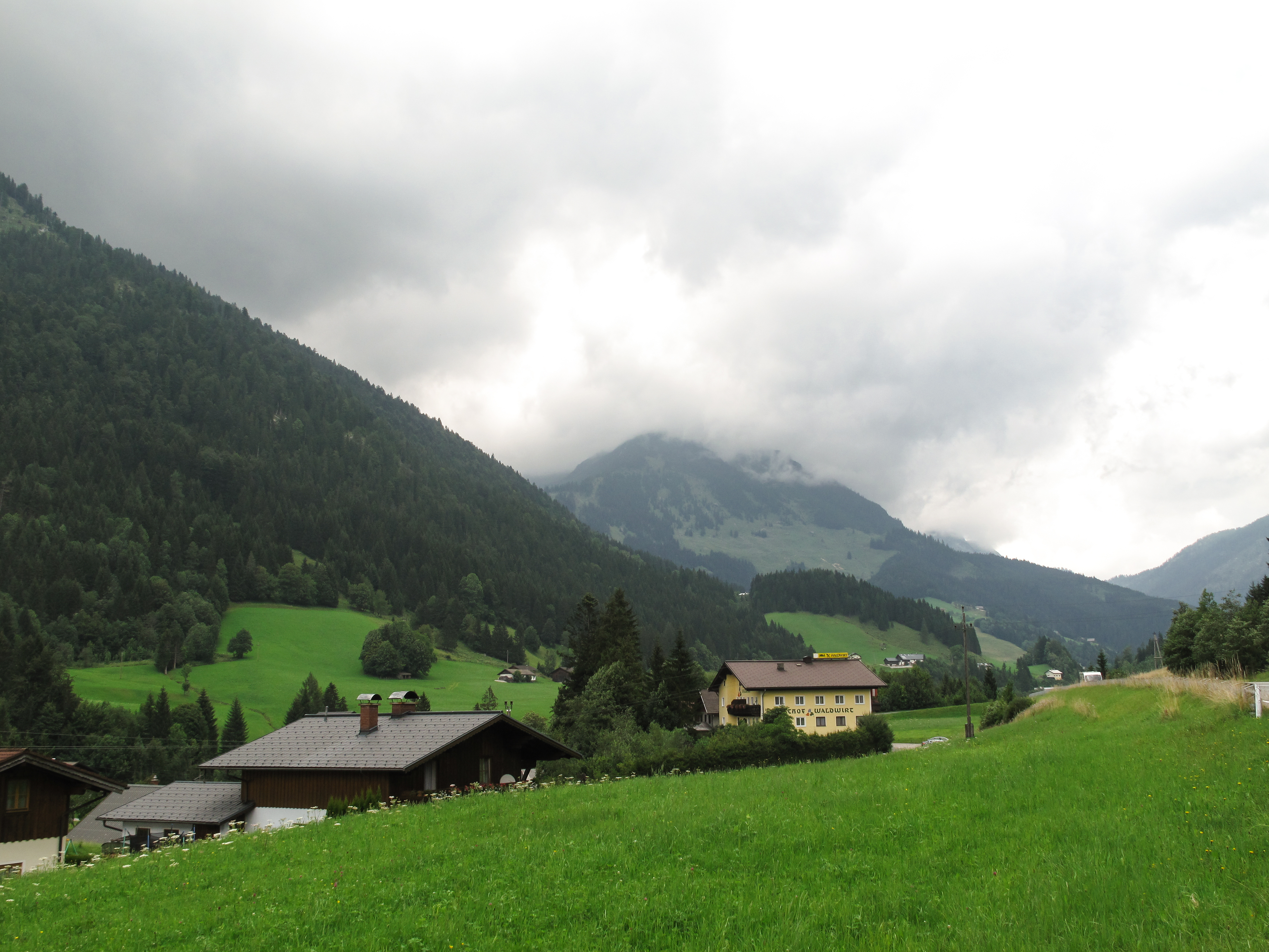 Between Russbach and Lindenthal, panorama